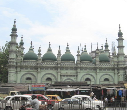 Tipu Sultan's Mosque at Esplanade.